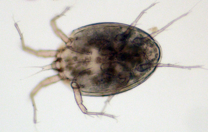 Sarraceniopus gibsoni, the pitcher plant mite found only within the pitcher leaves of Sarracenia purpurea.